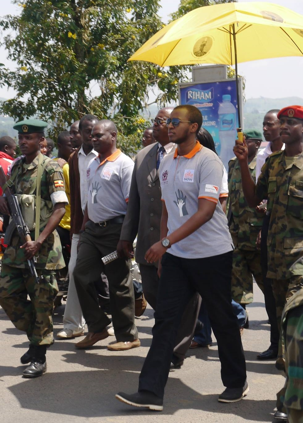 King Oyo Nyimba Kabamba Iguru Rukidi IV on September 5, 2013 participating in a walk in Fort Portal before commemorating his coronation.